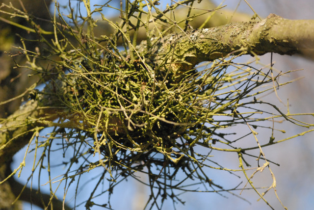 Taphrina betulina from Commanster, Belgium. If you think this is a different taxon, please contact James Lindsey.